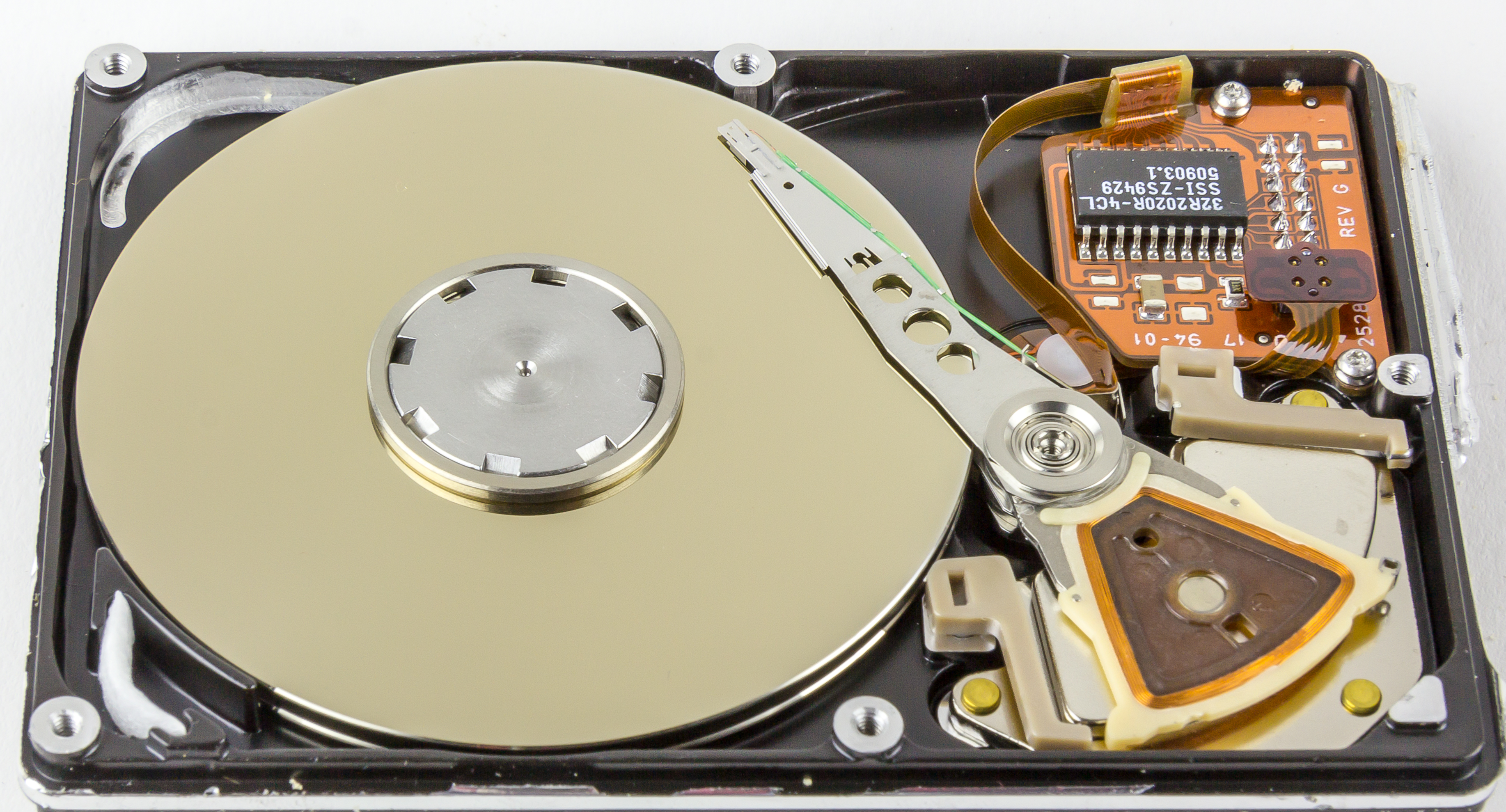 Seagate ST9300AG - opened. Platter and head mechanics